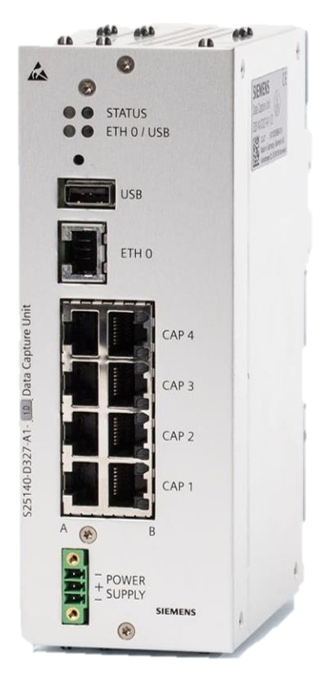 Siemens Data Capture Unit v1.0